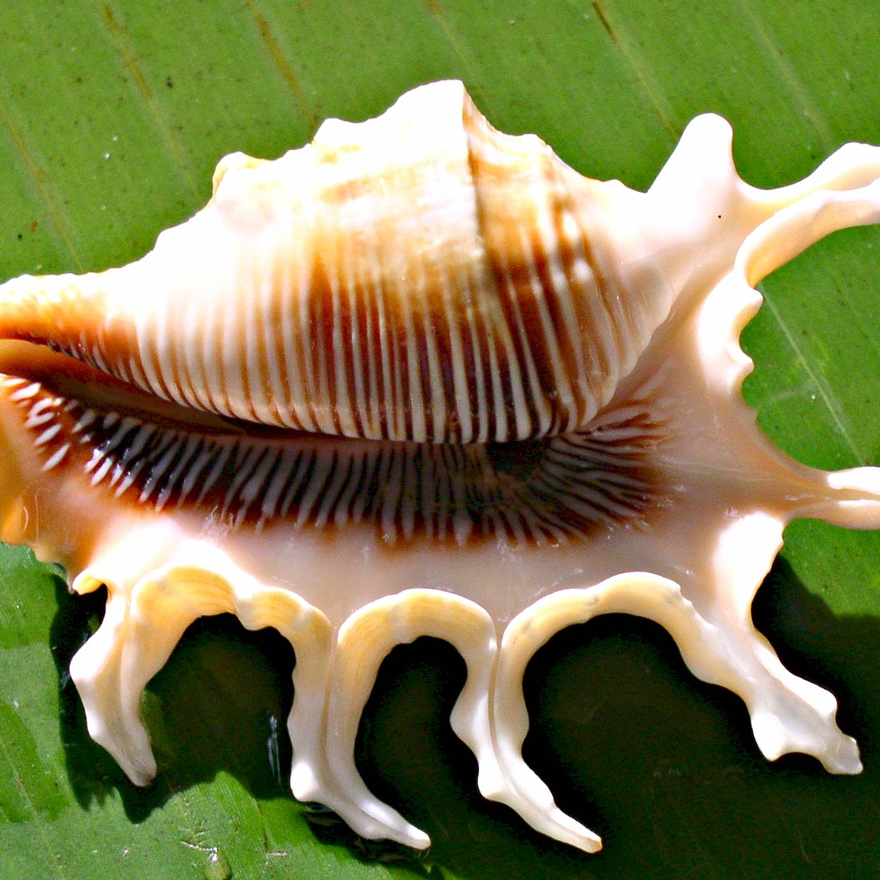 Photo of detail of apertural view of the shell of Scorpion Shell Lambis scorpius scorpius.